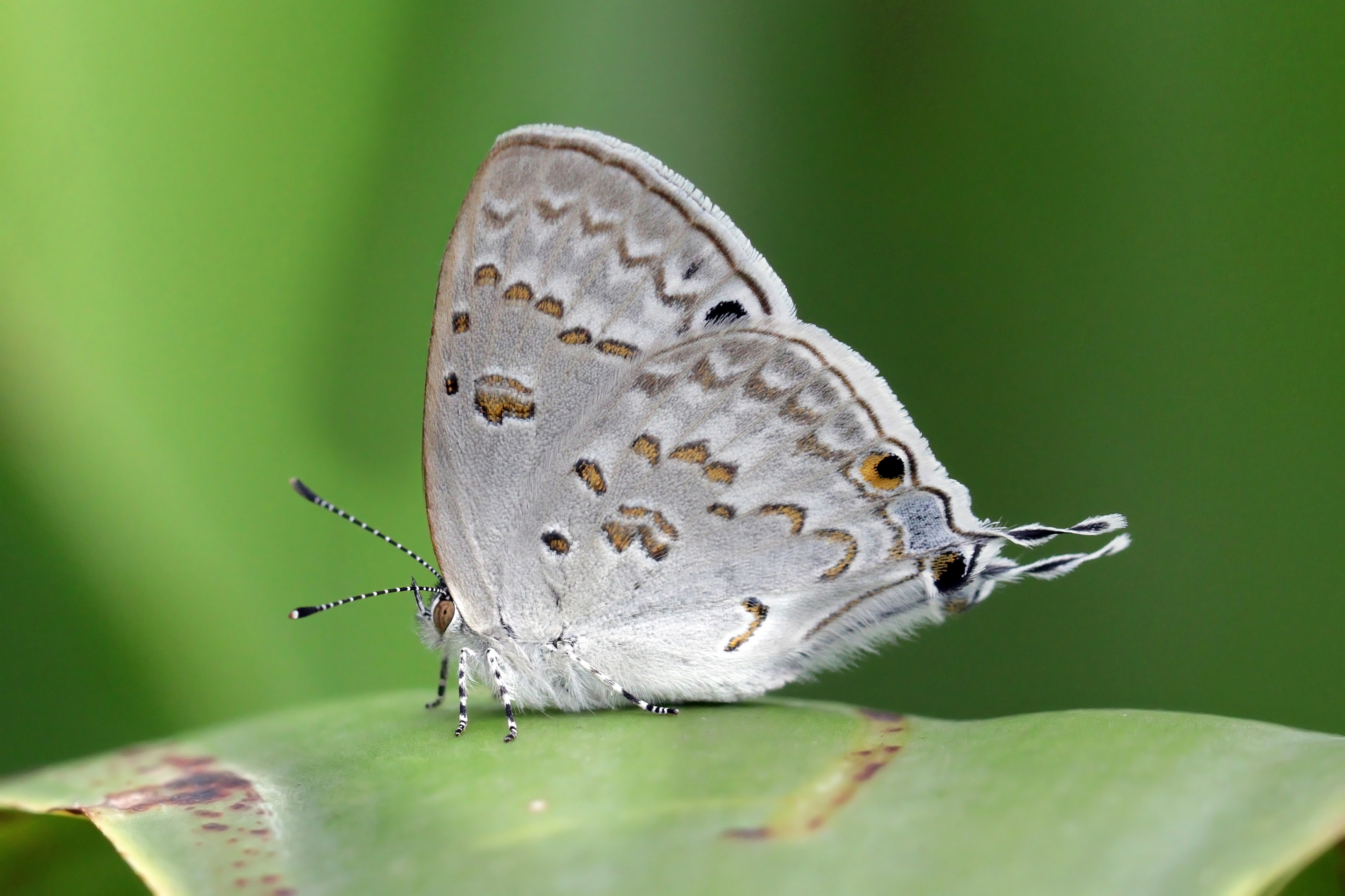 Madagascar black-eye (Leptomyrina phidias), Peyrieras Nature Reserve, Madagascar